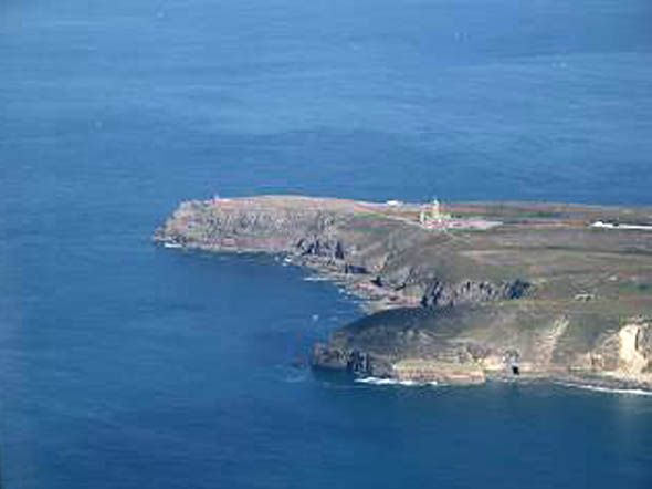 The cliffs of Cap Fréhel, airborne photograph.